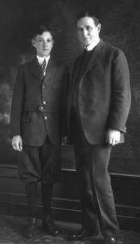 Merchant Owner Franklin Bond Sr., with his Son, Franklin Bond Jr. in 1914, Espanola.